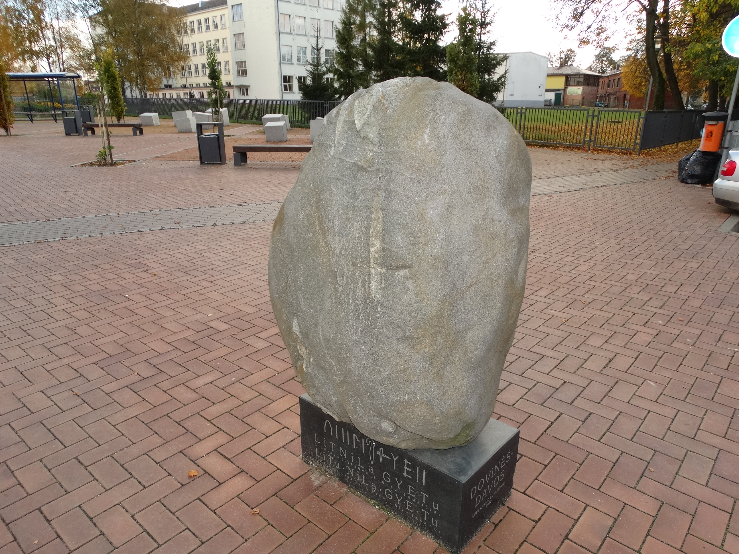 Stone with runes, Marijampolė, Lithuania